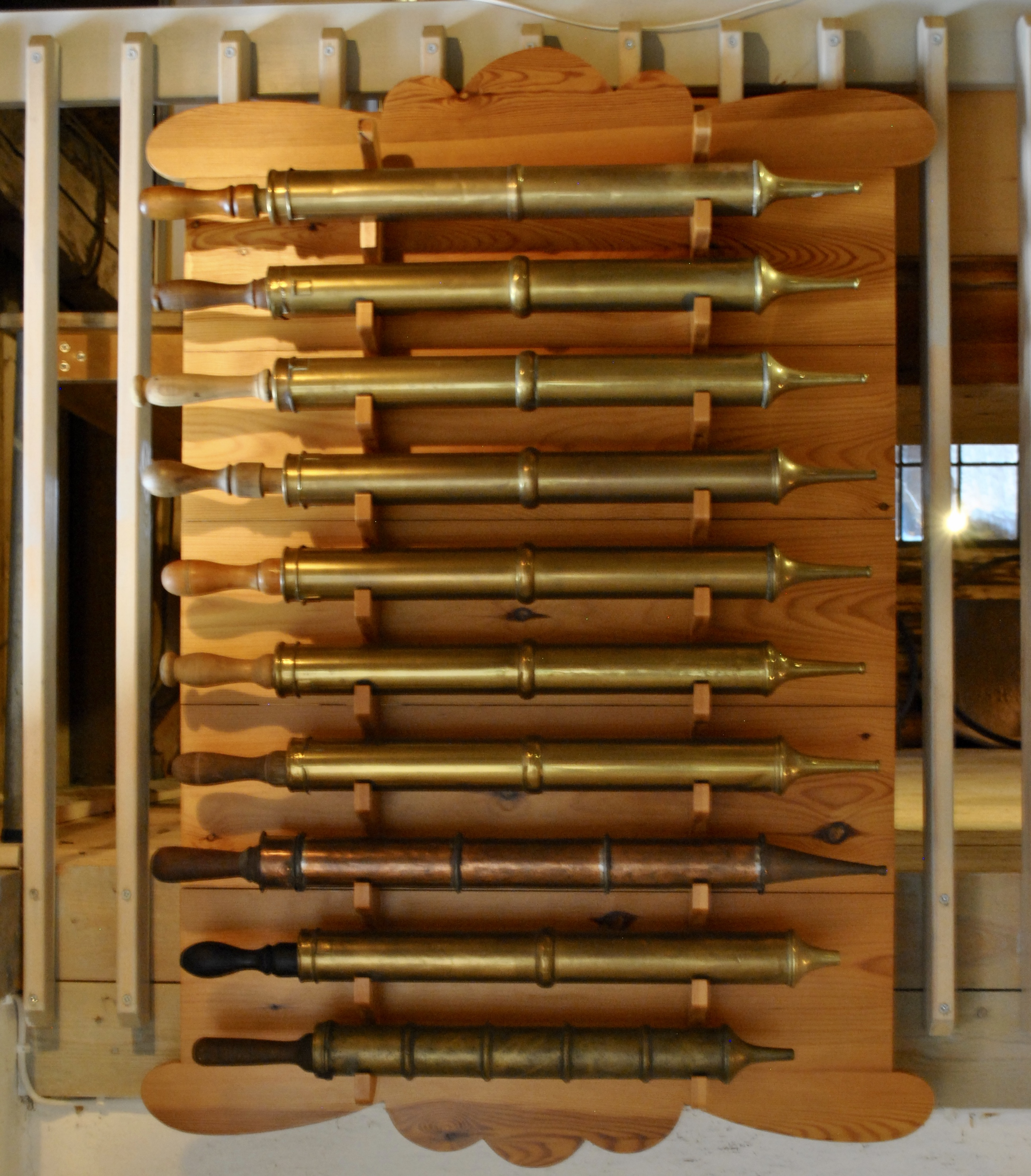 Firefighter syringe, Nyeds hembygdsförening, Molkom, July 2017